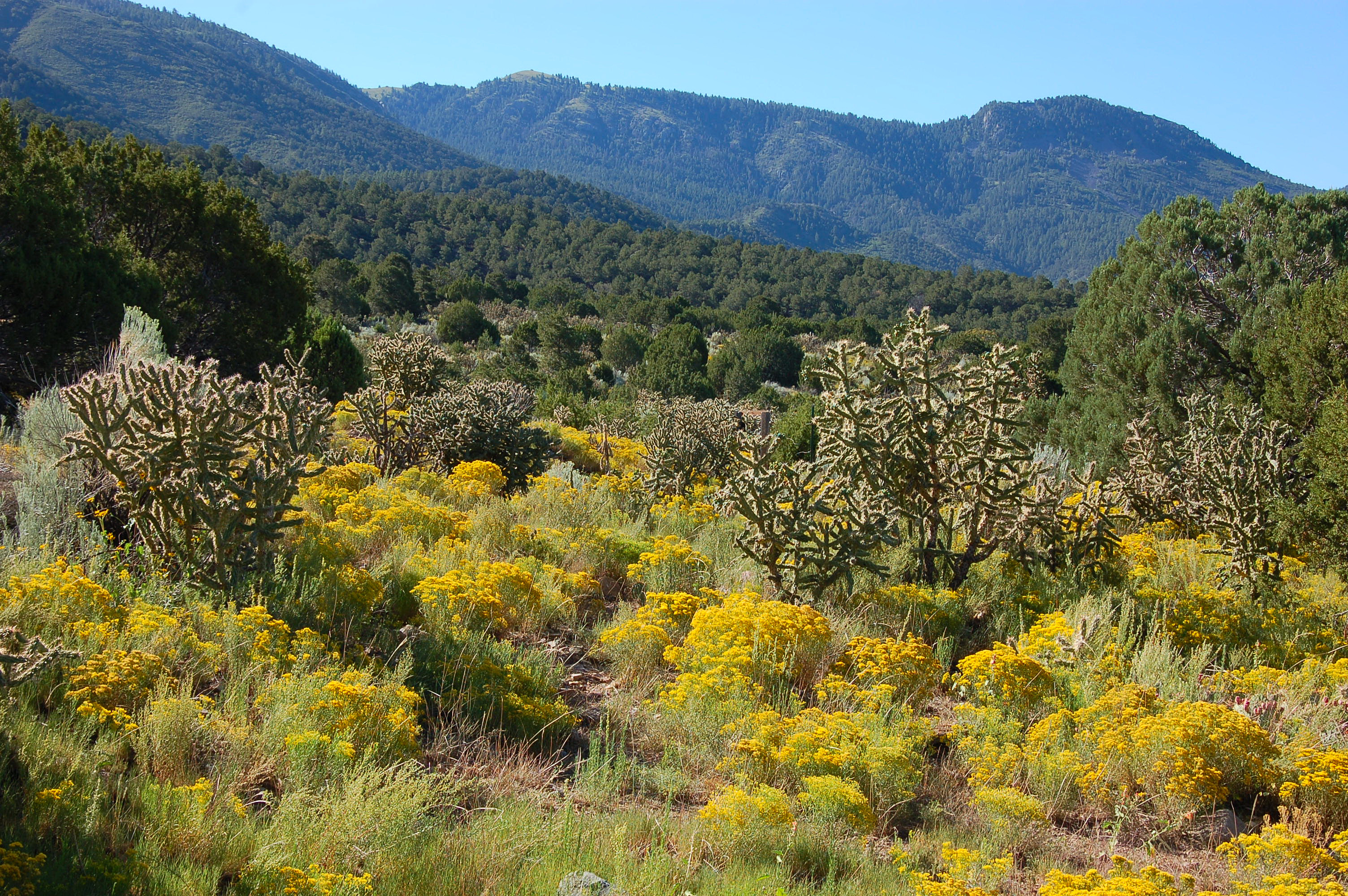 Site of Ghost Town of Kelly, NM, Outside of Magdalena